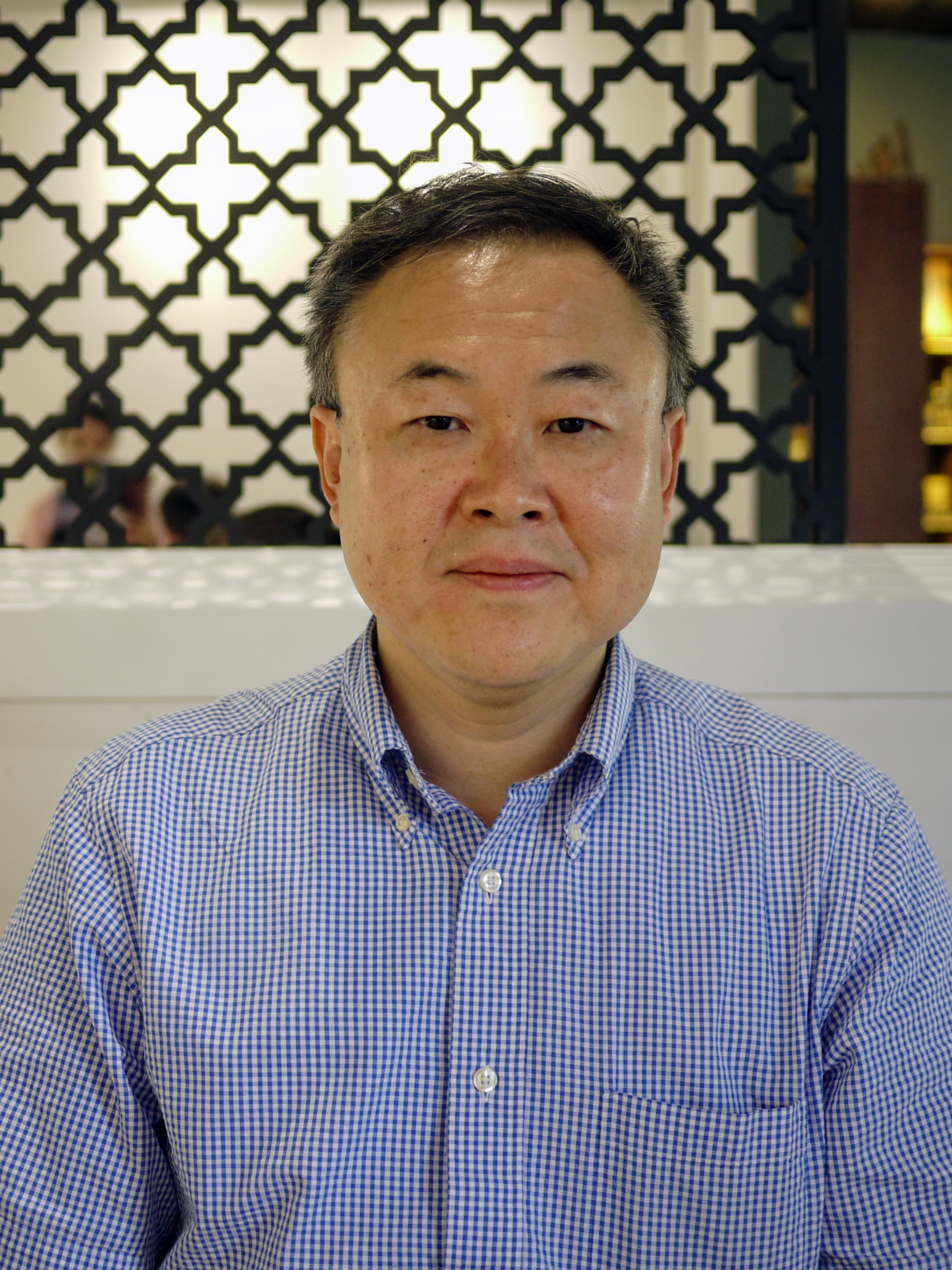 Yasushi Watanabe (渡辺靖 Watanabe Yasushi) (born 1967) is a full Professor at Keio University in Japan.